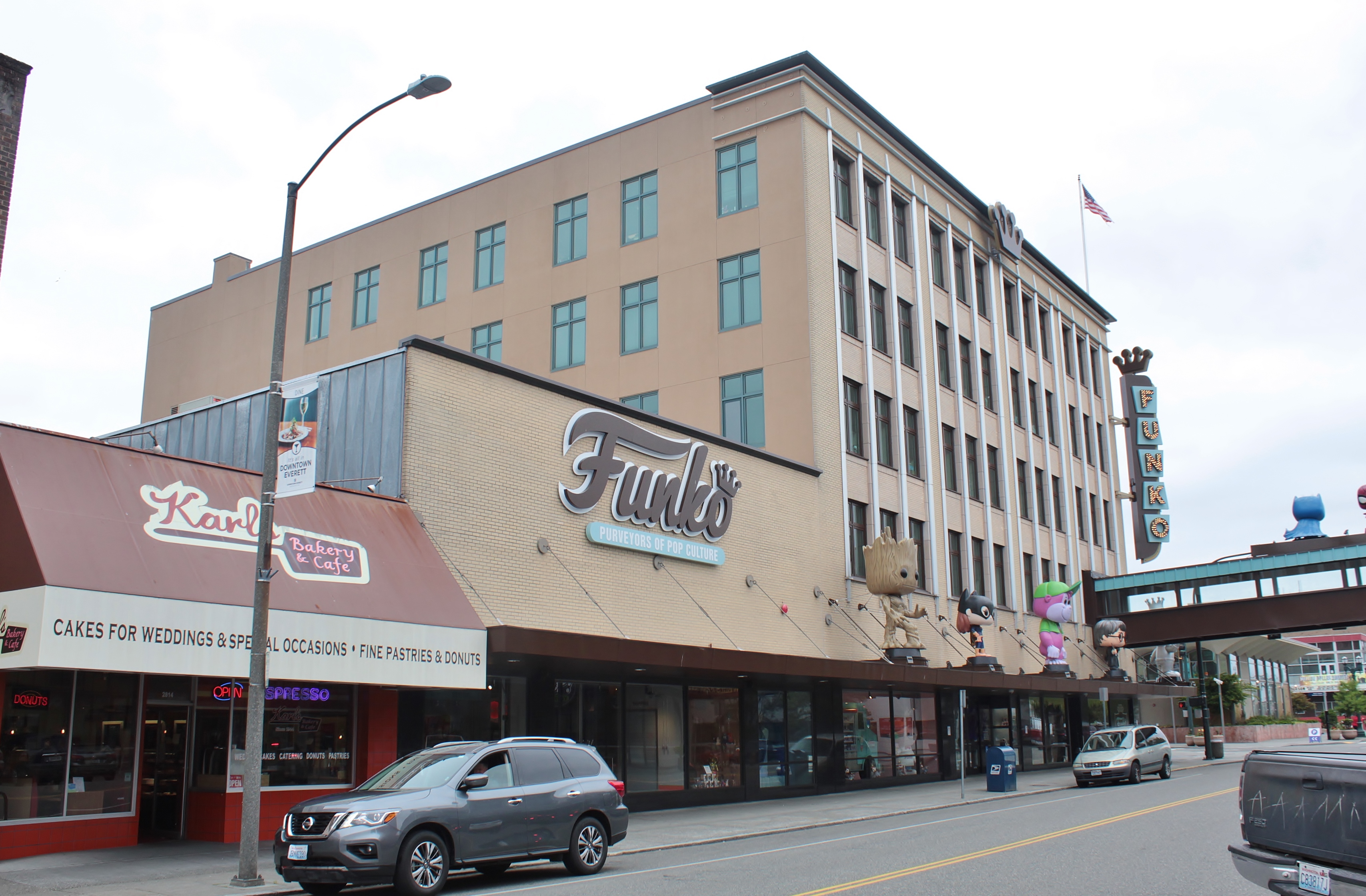 The headquarters and flagship store of Funko in downtown Everett, Washington, in the former Trinity Christian College and Bon Marche building.